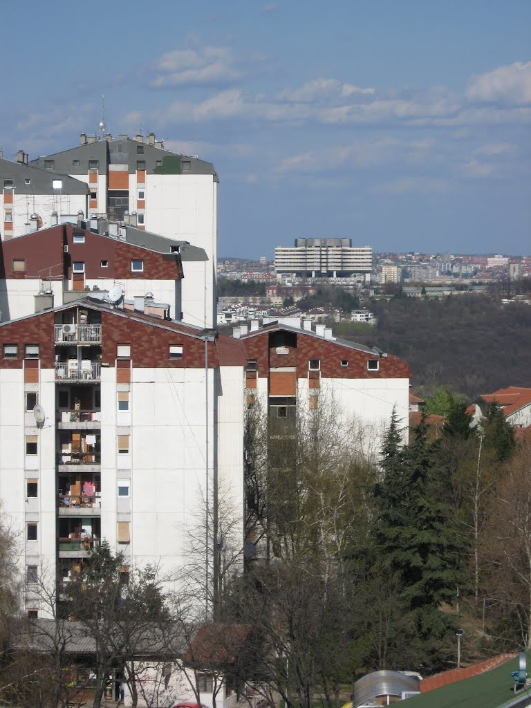 Belgrade - Skojevsko naselje